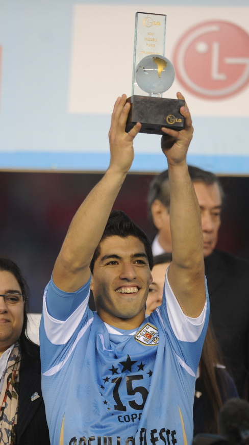 Uruguayan Luis Suarez with the award for the most valuable player of the 2011 Copa America.